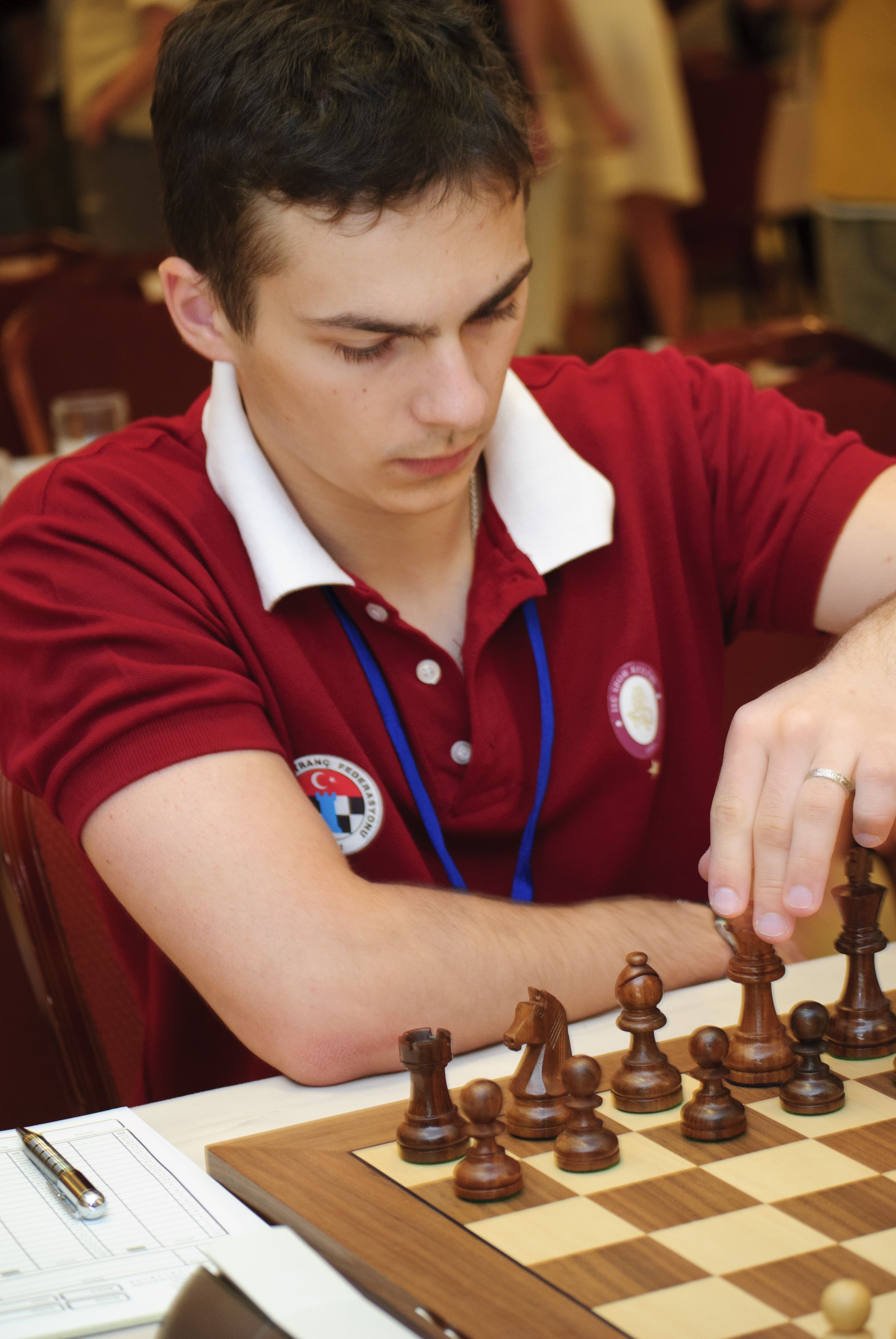 GM Ipatov Alexander, WChJ Athens 2012